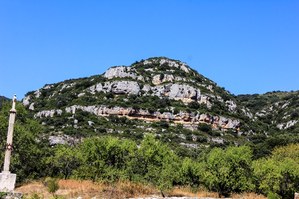 La cinglera con los abrigos del Forau del Cocho